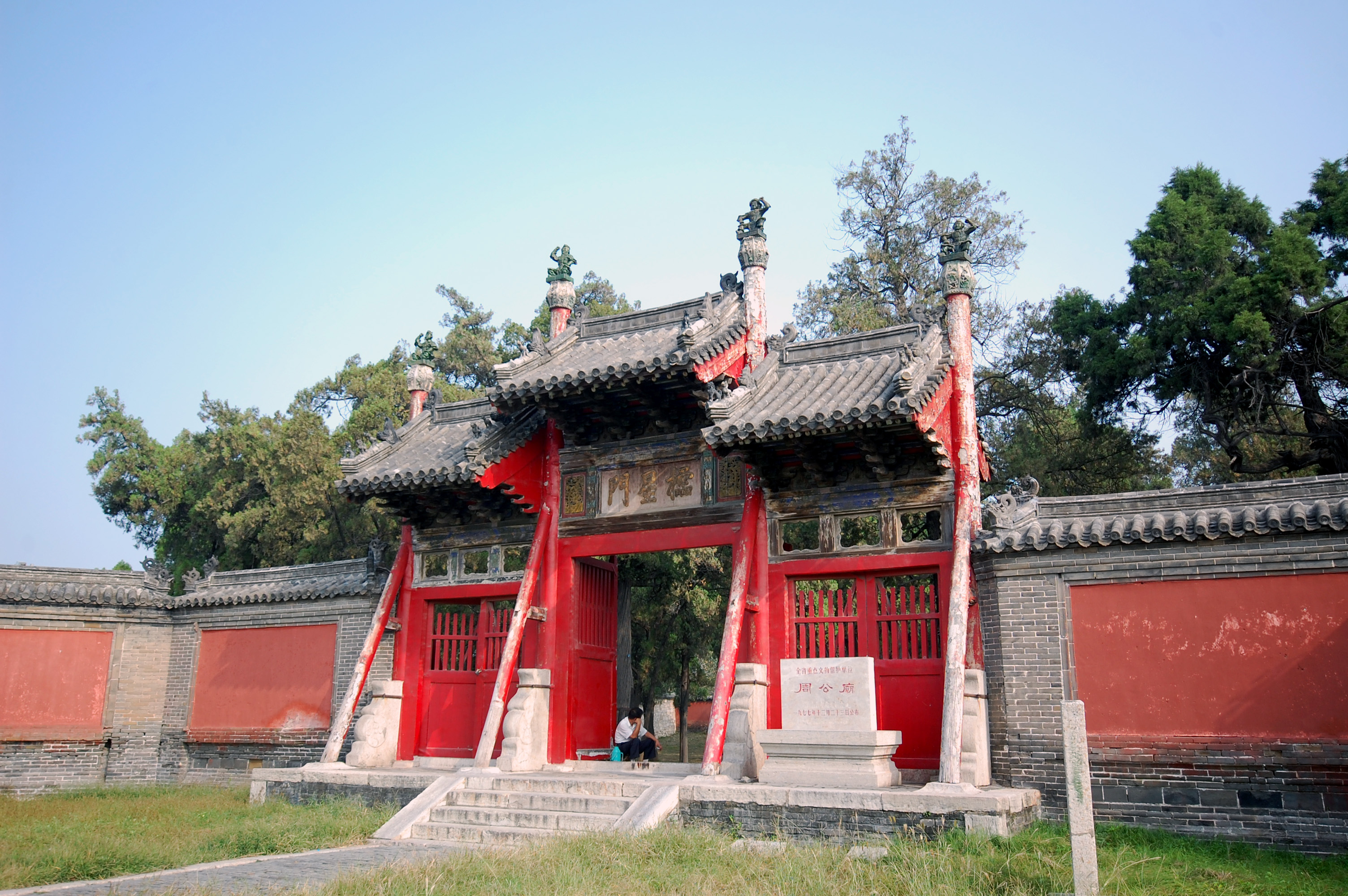 The Temple of Duke Zhou, Qufu, Jining, Shandong